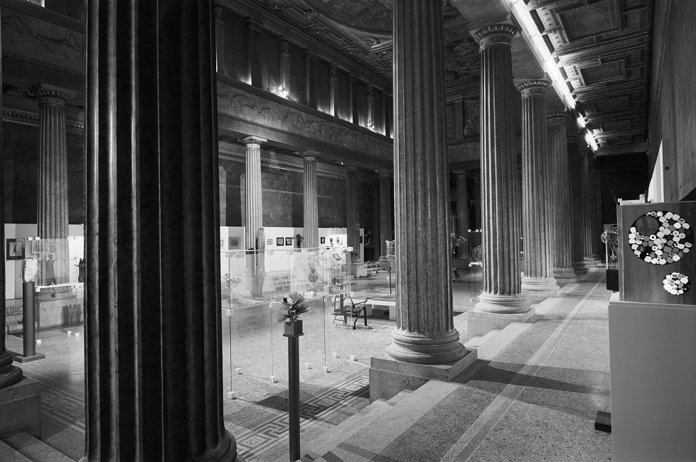 Velkolepá Wagnerova výstava v aule vídeňské AVU, r. 1987